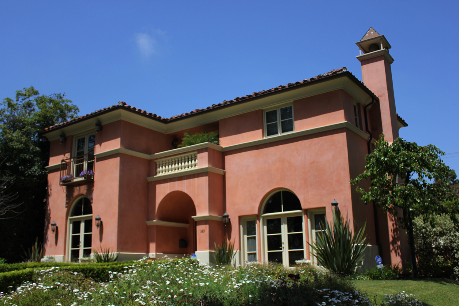 Typical home in the North of Montana neighborhood in Santa Monica, California - Zip code 90402, among the most expensive in California and in the U.S.